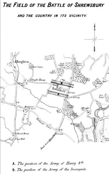 Sketch map of the Battle of Shrewsbury from Richard Brooke's Visits to Fields of Battle, in England, of the Fifteenth Century, facing page 10. 1857.